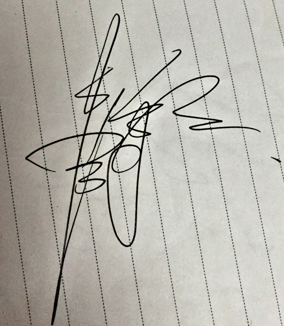 This is Jim Bing Hei's signature.